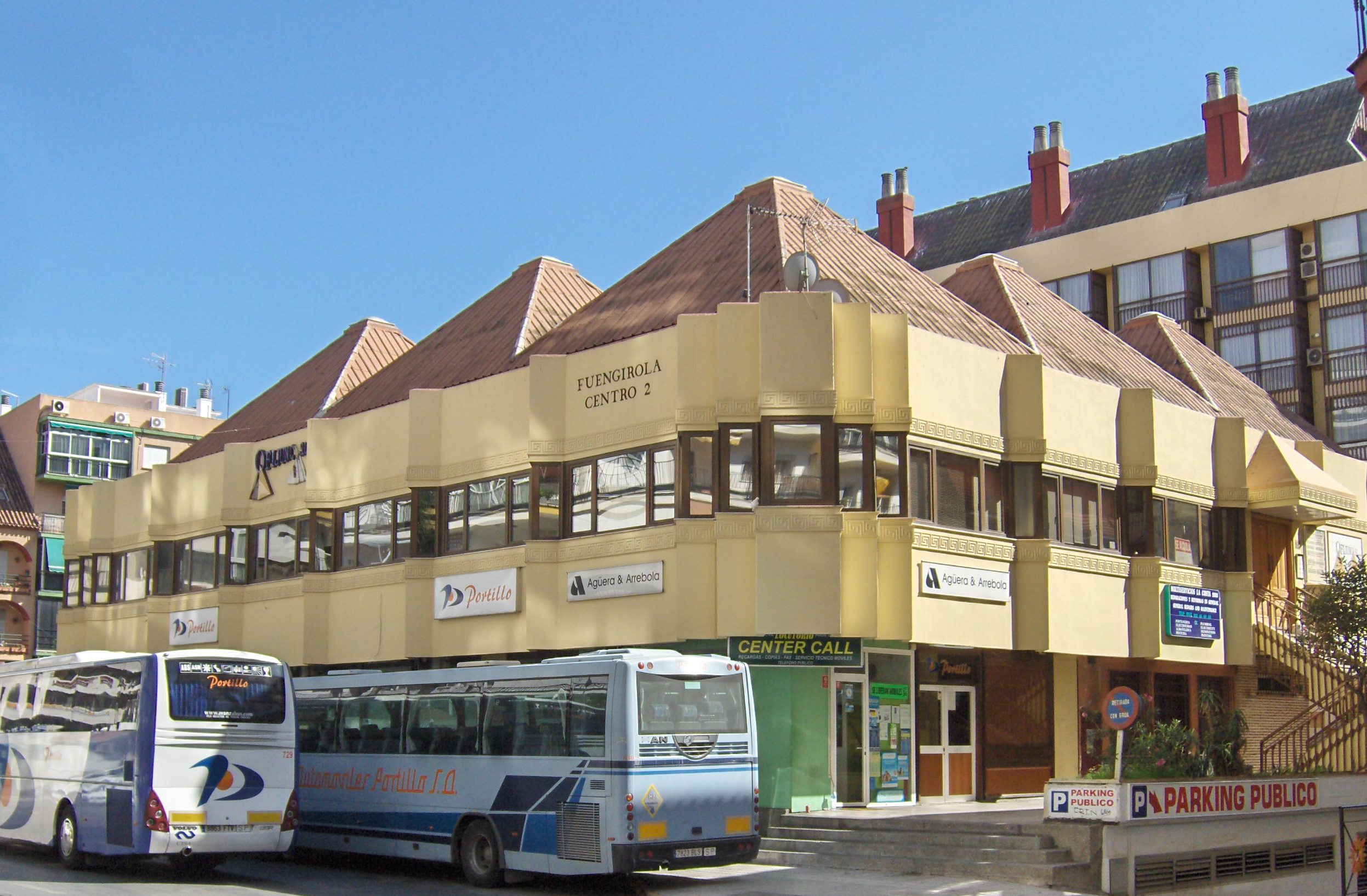 Bus and coach station in Fuengirola, Spain.